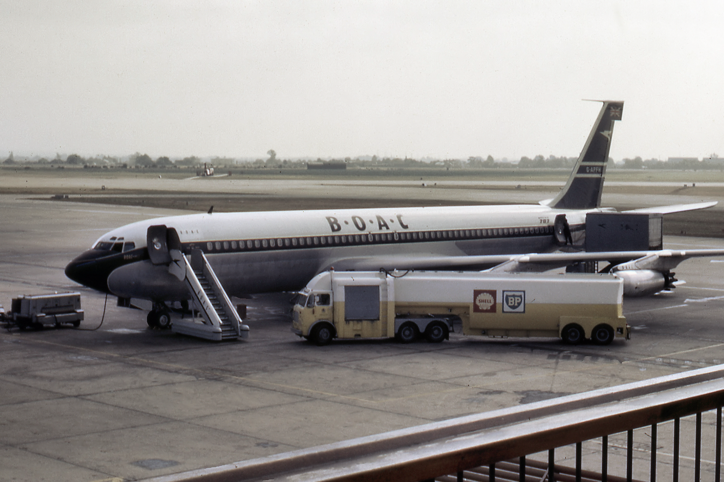 BOAC Boeing 707 at London Heathrow Airport in 1964. Photographed by Adrian Pingstone and released to the public domain.